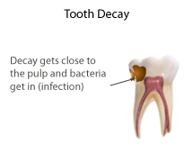 Decay in a deciduous (baby) tooth